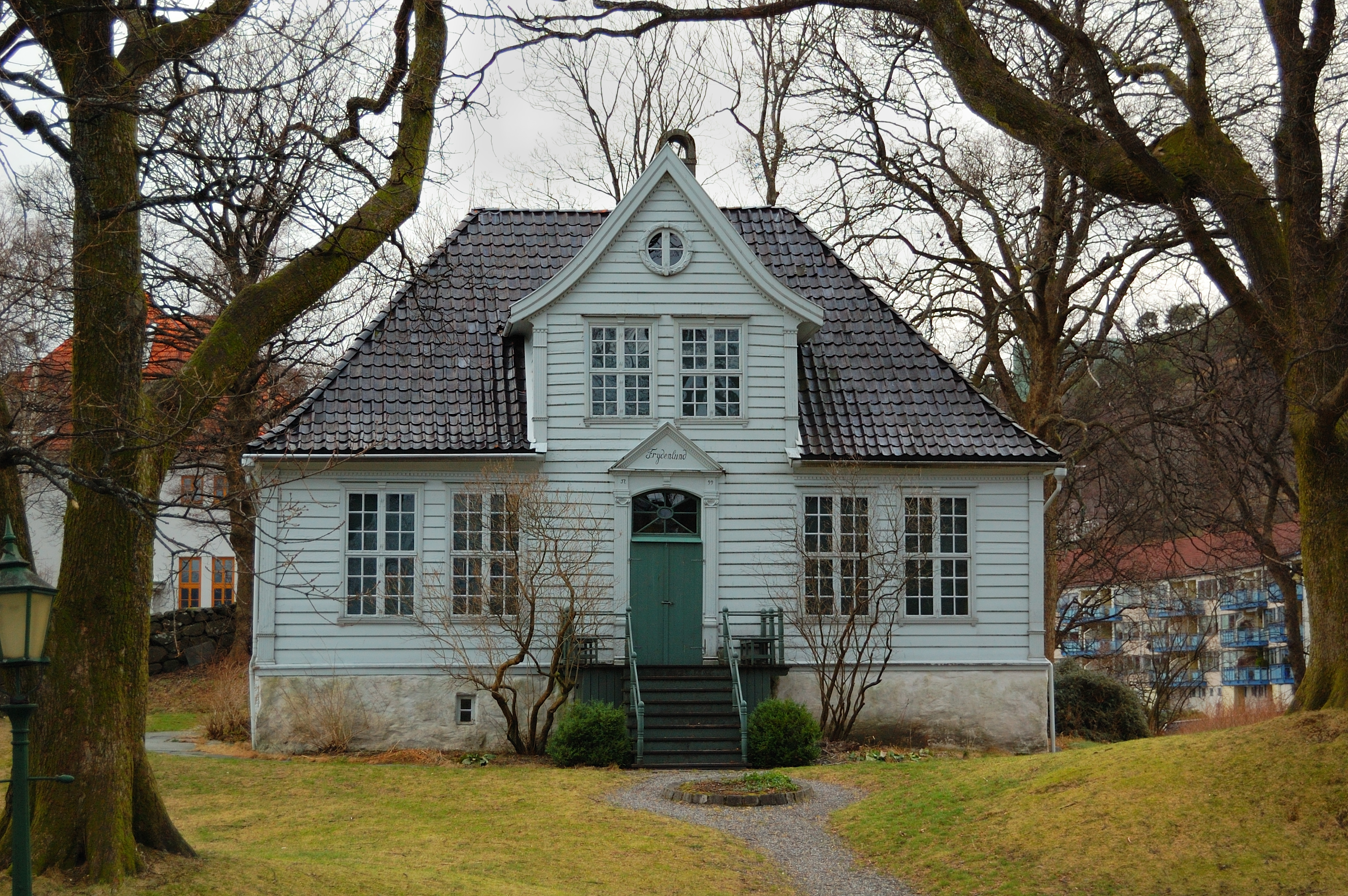 Gamle Bergen - open air museum in Bergen, Norway.